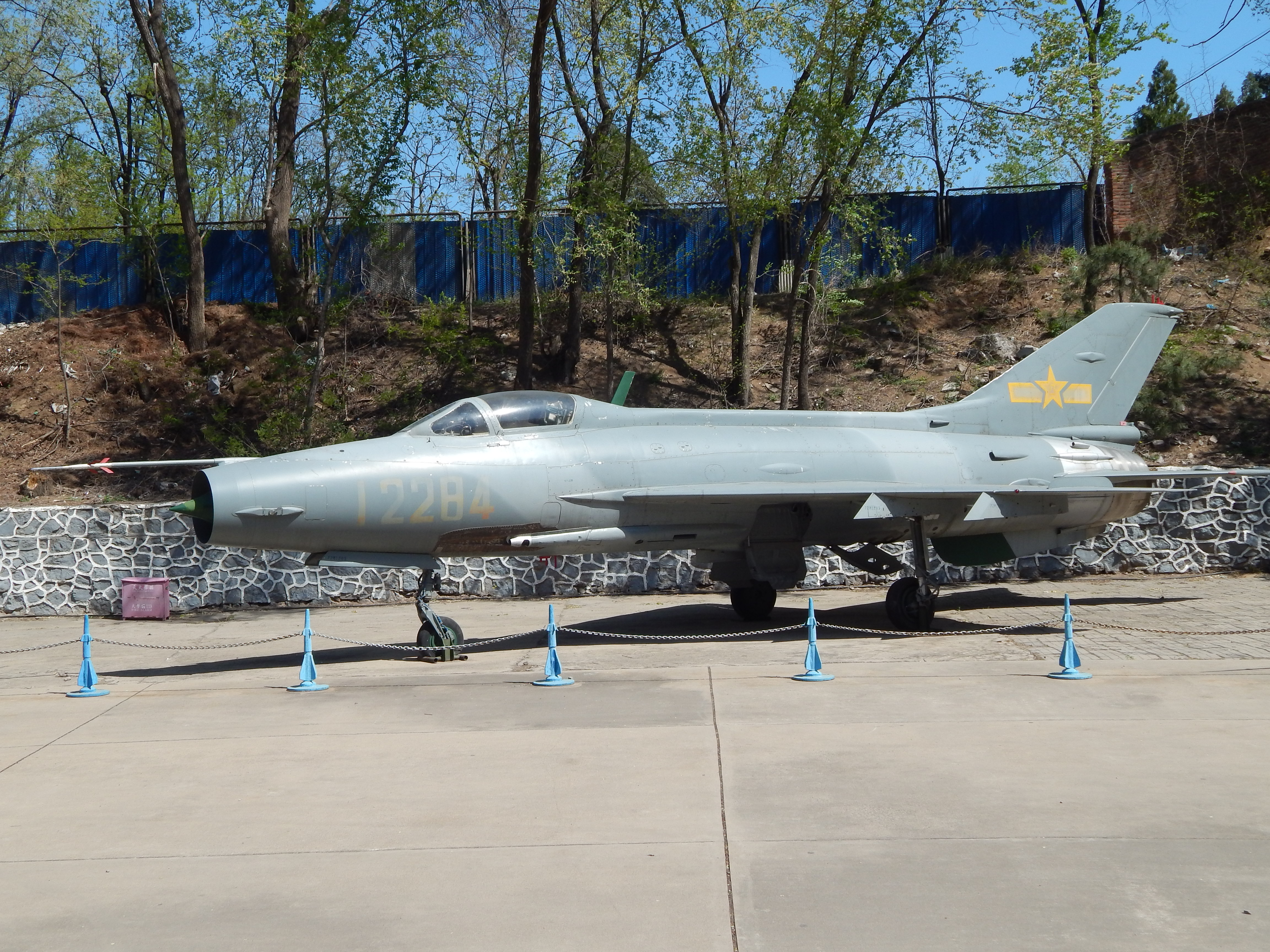 I am not a fan of military aircraft so have no idea what this is. I assume that it has a Chinese designation despite its Soviet heritage.